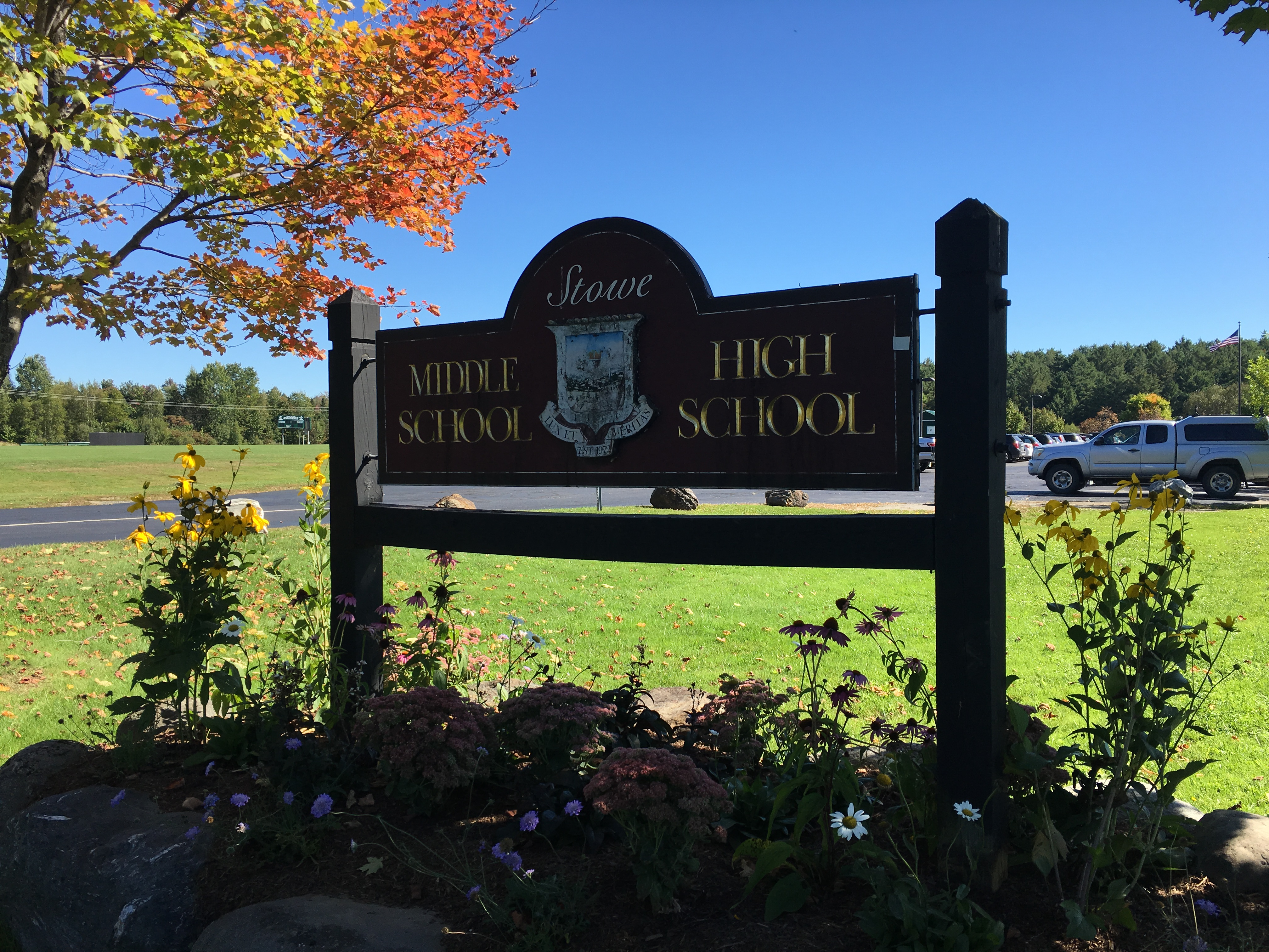 Stowe Middle High School sign